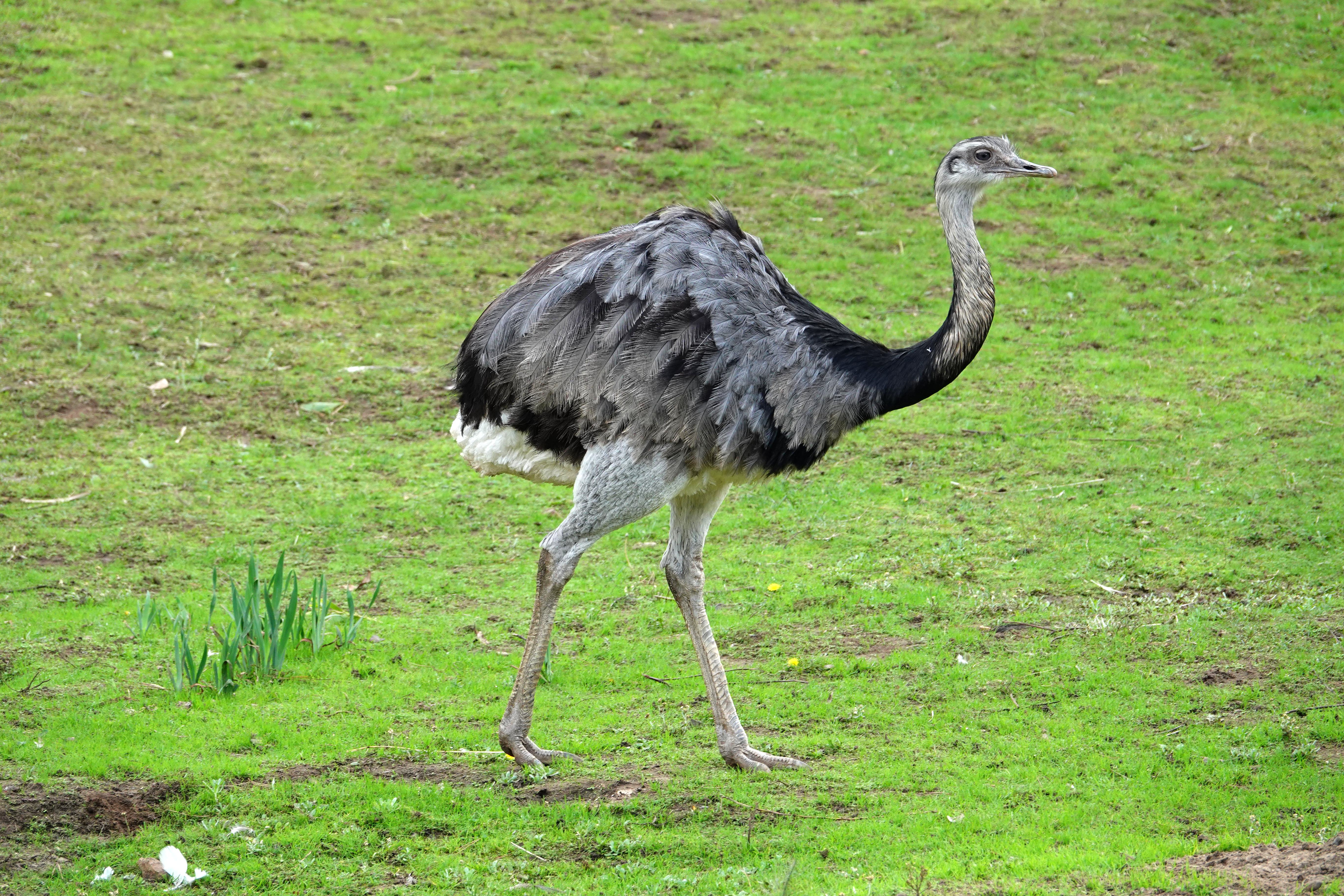 Picture of a Greater Rhea (Rhea americana) at the San Francisco Zoo, USA.